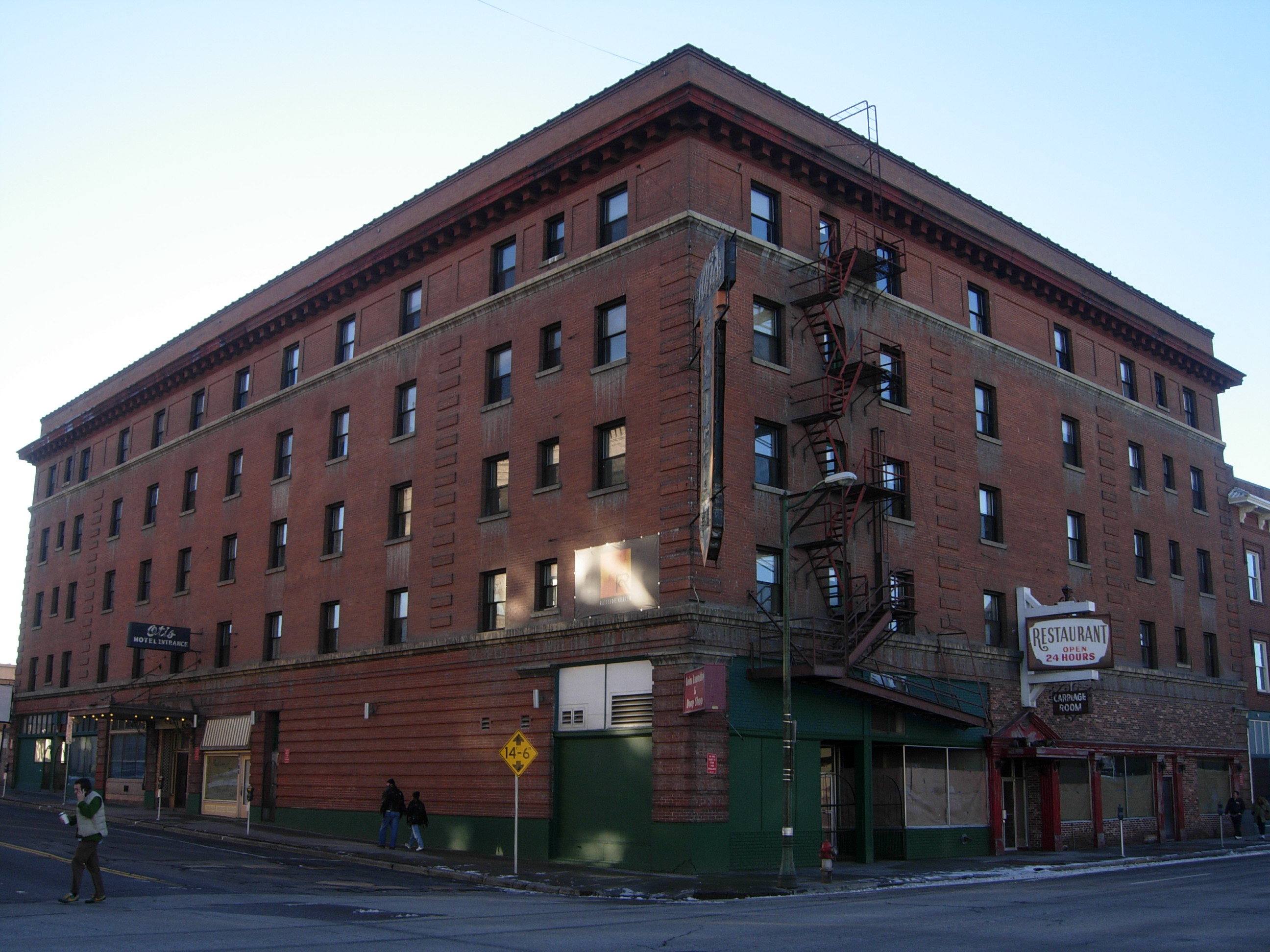 The Otis Hotel in Spokane, Washington